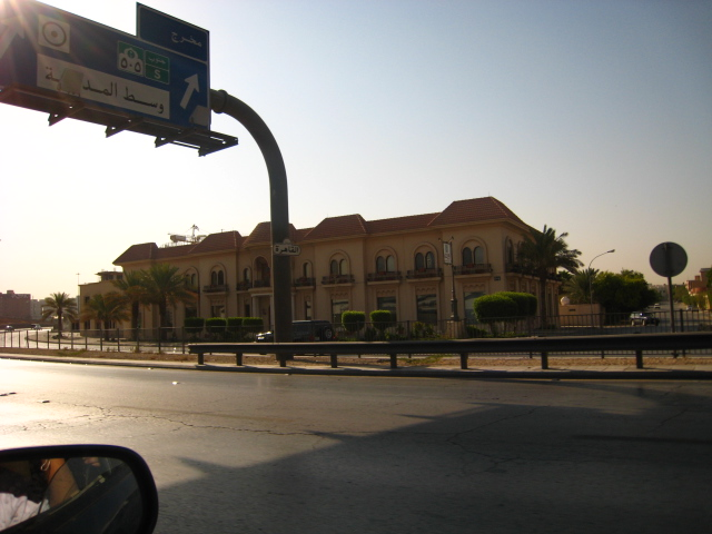 from that exit u can go to Cairo Square!! :) I took this shot for building not for Cairo :)